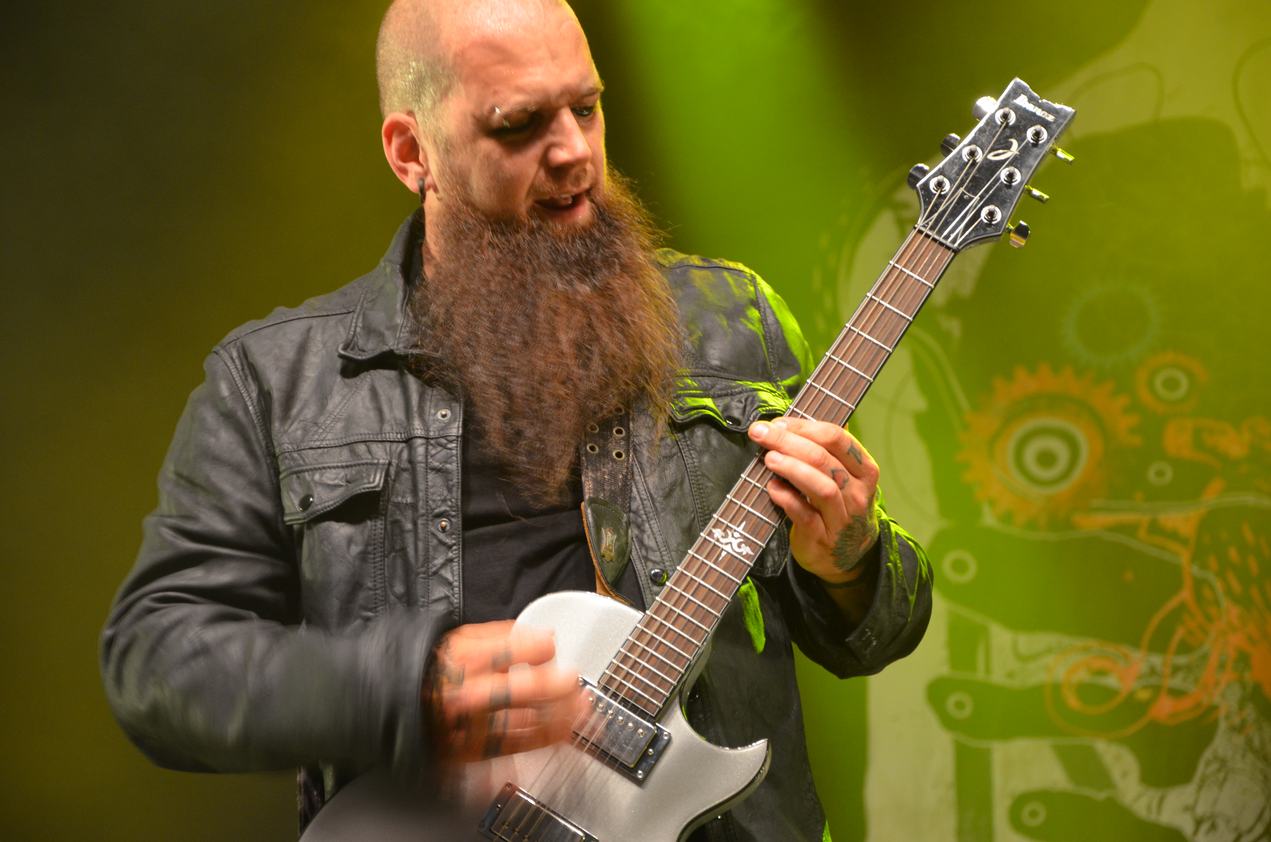 Three Days Grace bei Rock am Ring 2015.